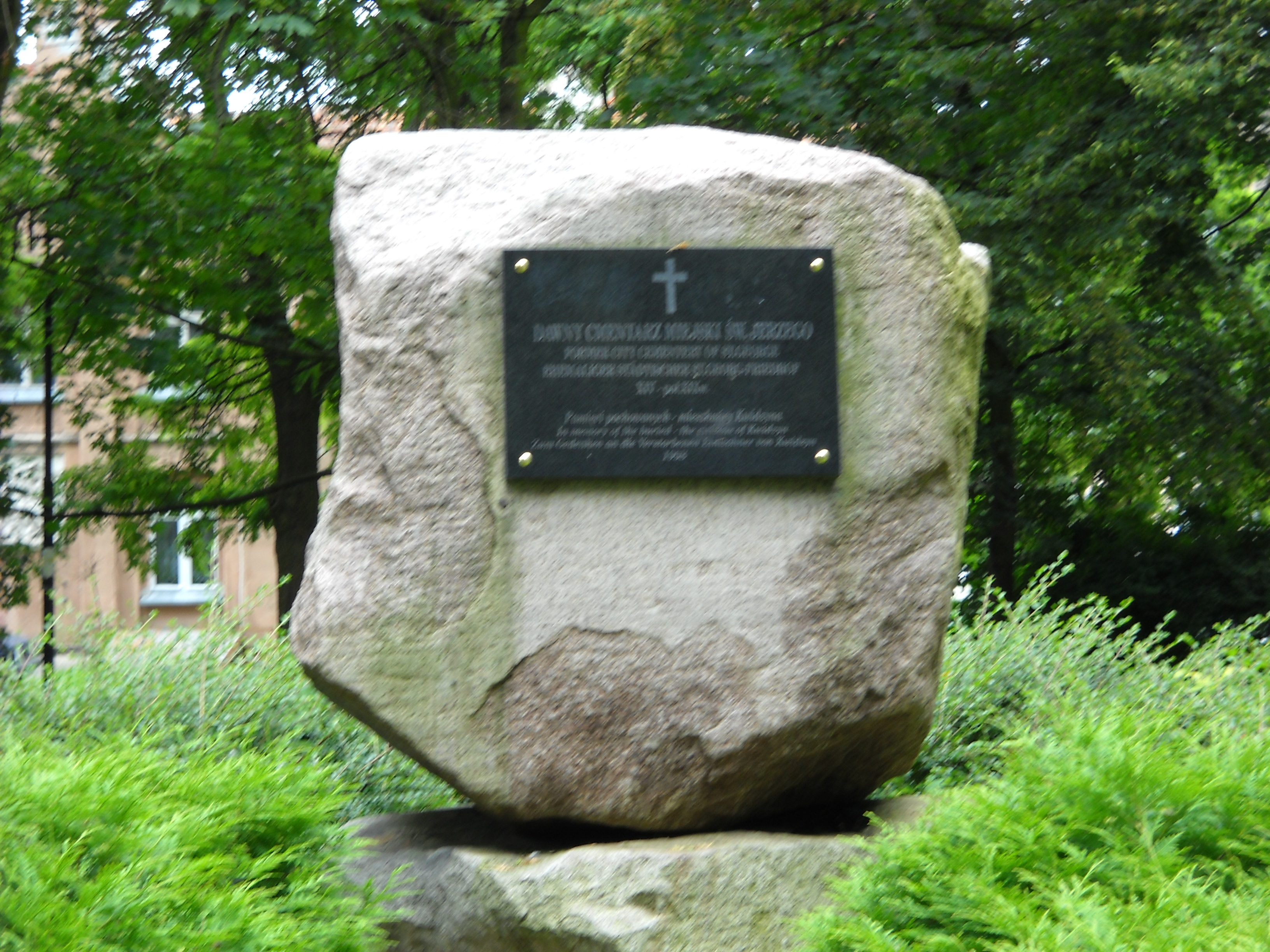 A stone conmemorating an unexistent cemetery in Kwidzyn